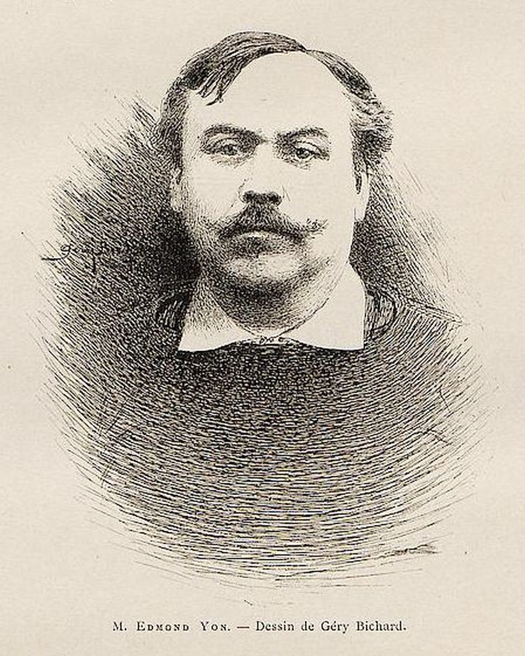 Edmond Yon - Etching by Gery Bichard, 1886